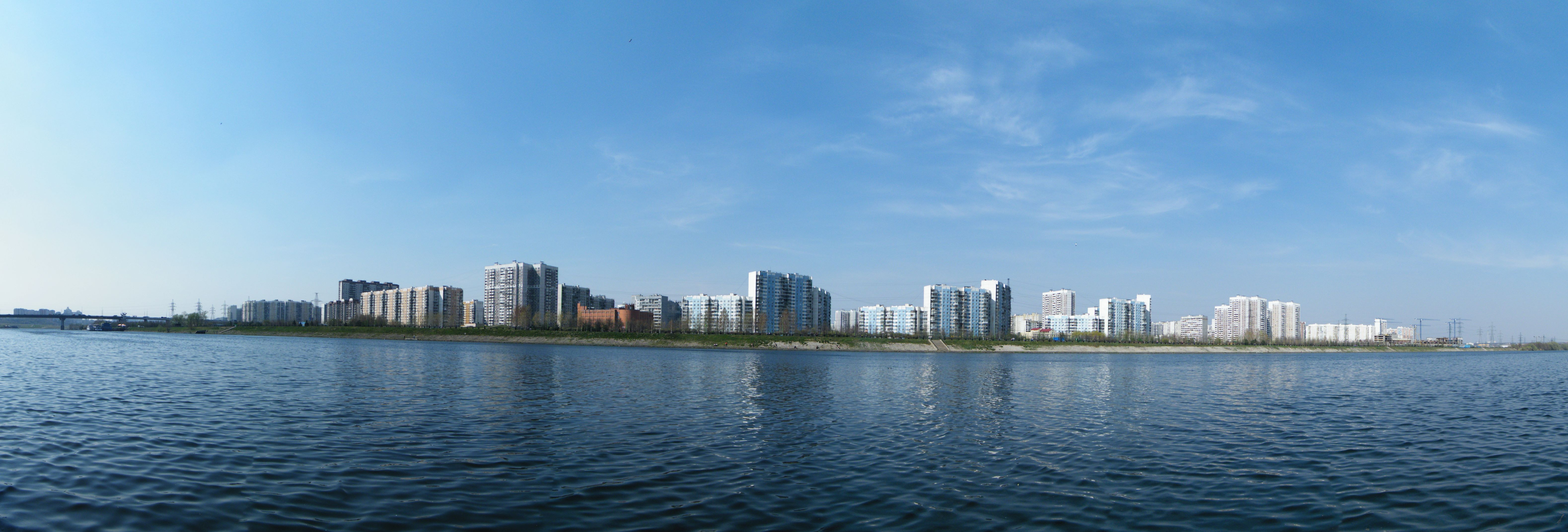 District Maryino, south-east of Moscow, river-side panorama.